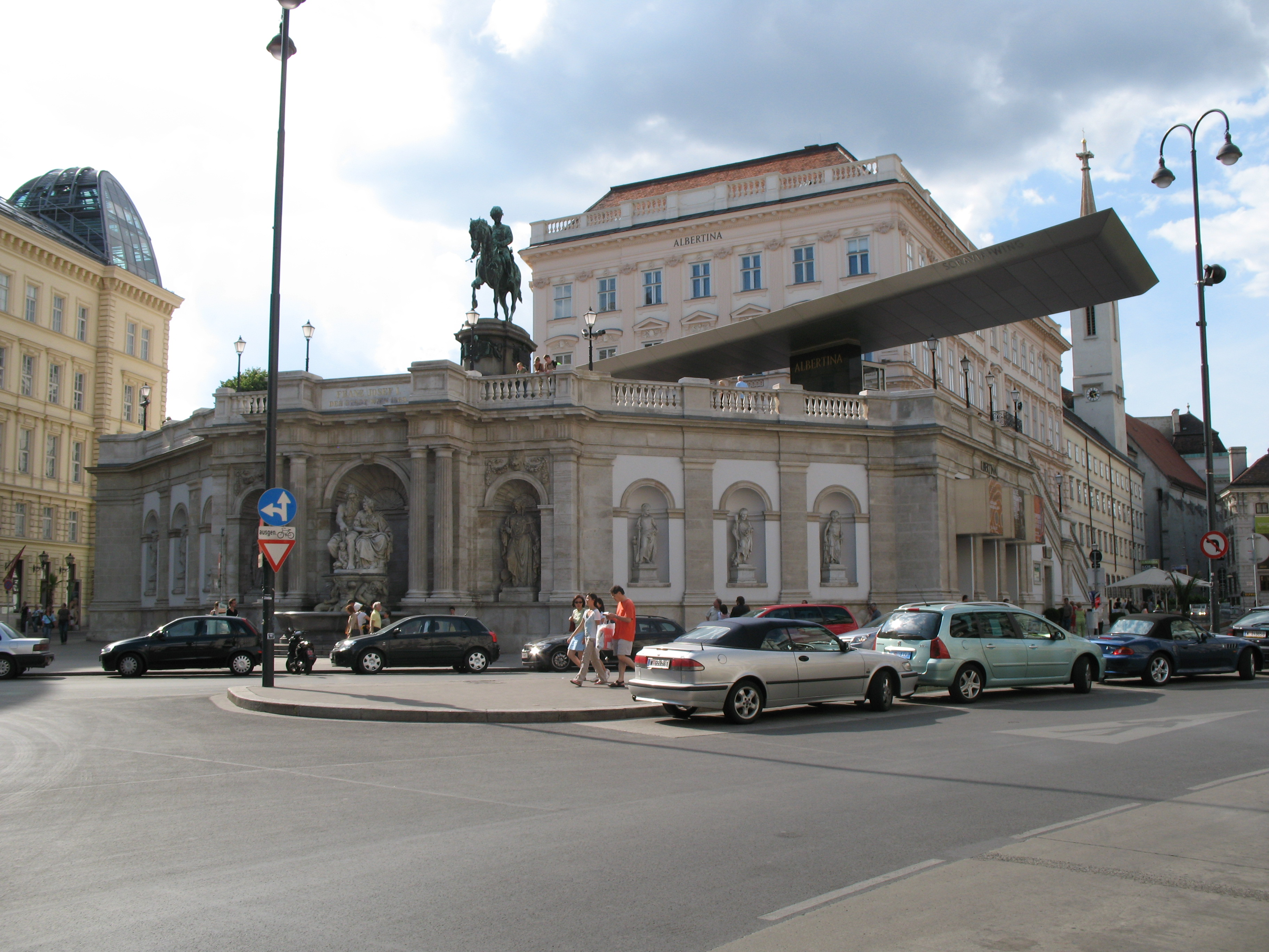 Albertina Plaza, Vienna, Austria